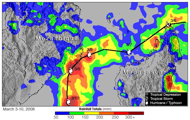 Rainfall summary of Cyclone Jokwe (March 6-10)